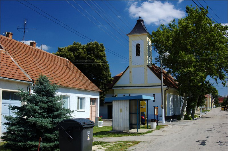 Popudinské Močidľany, church